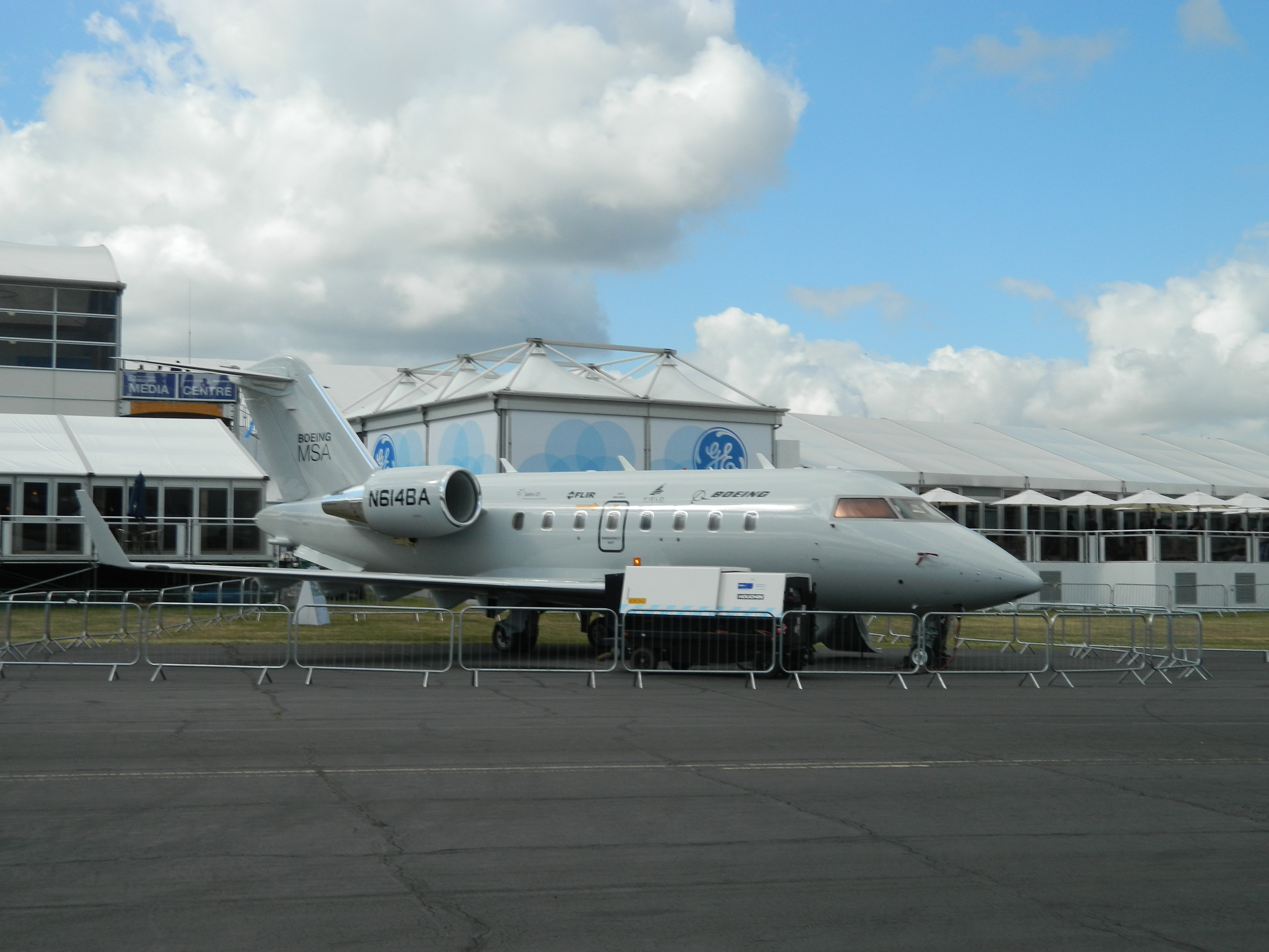 Boeing Maritime Surveillance Aircraft (MSA) a modified Bombardier Challenger registered N614BA and on display at Farnborough Air Show, England in 2014